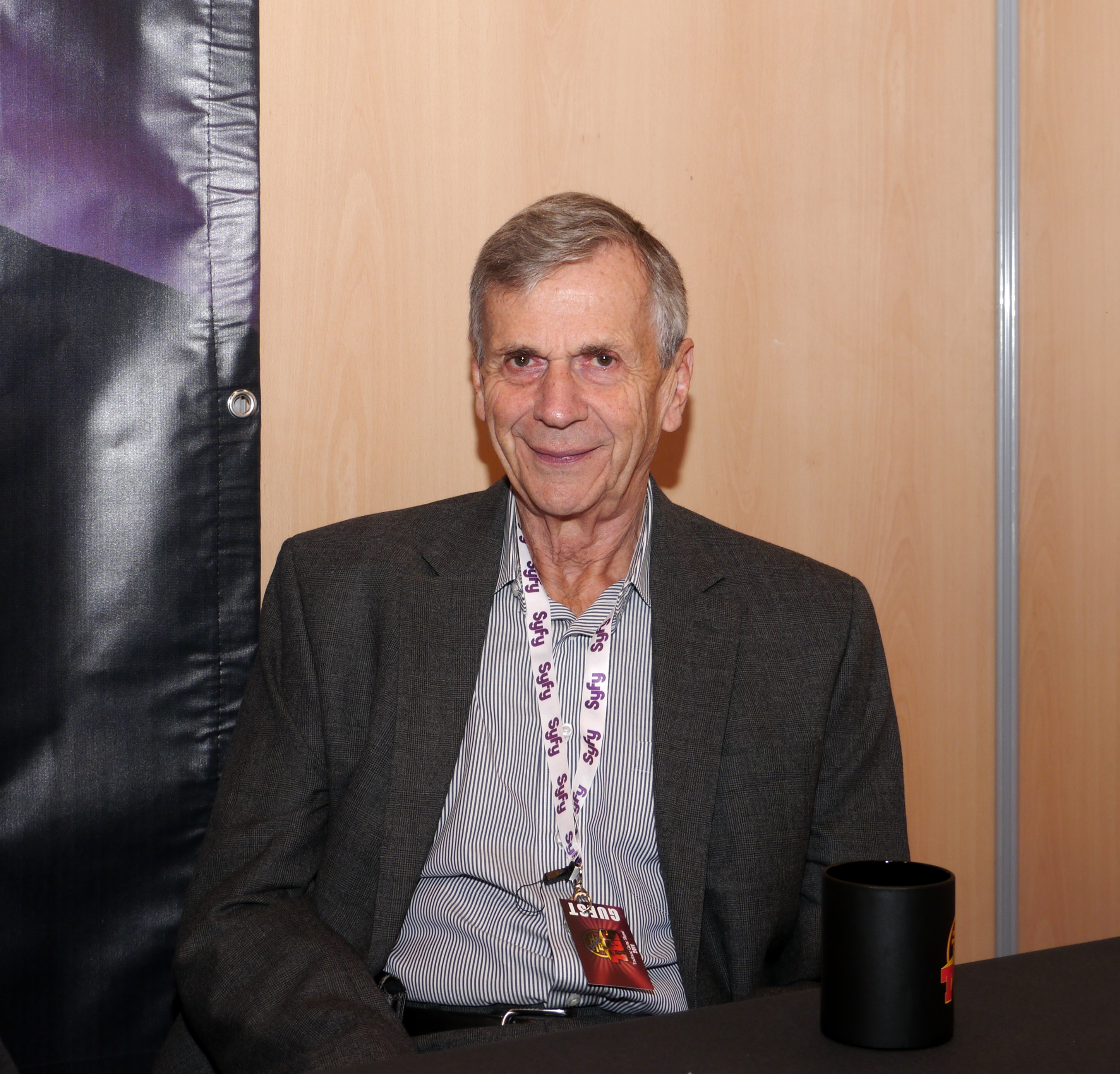 Toulouse Game Show Festival, 5th edition.